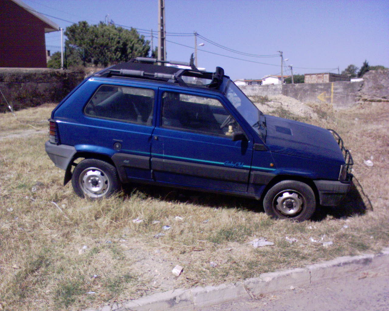 Fiat Panda 4x4 Country Club